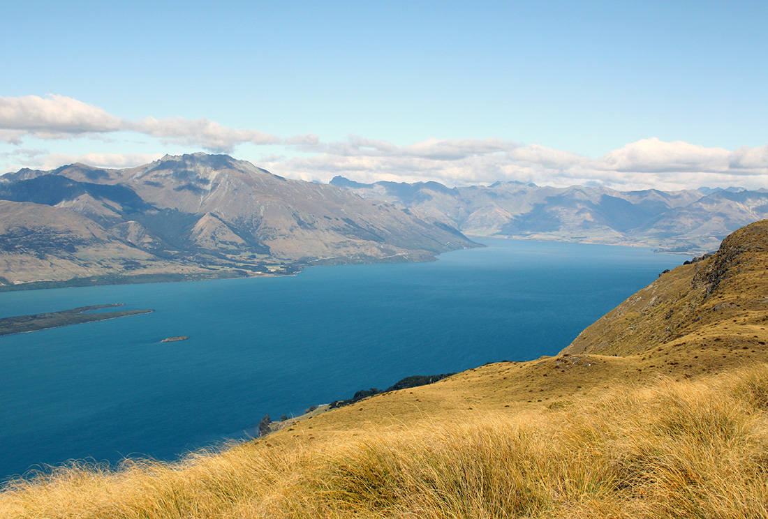 Lake Wakatipu looking south from the mountain tops on the western side south of Glenorchy